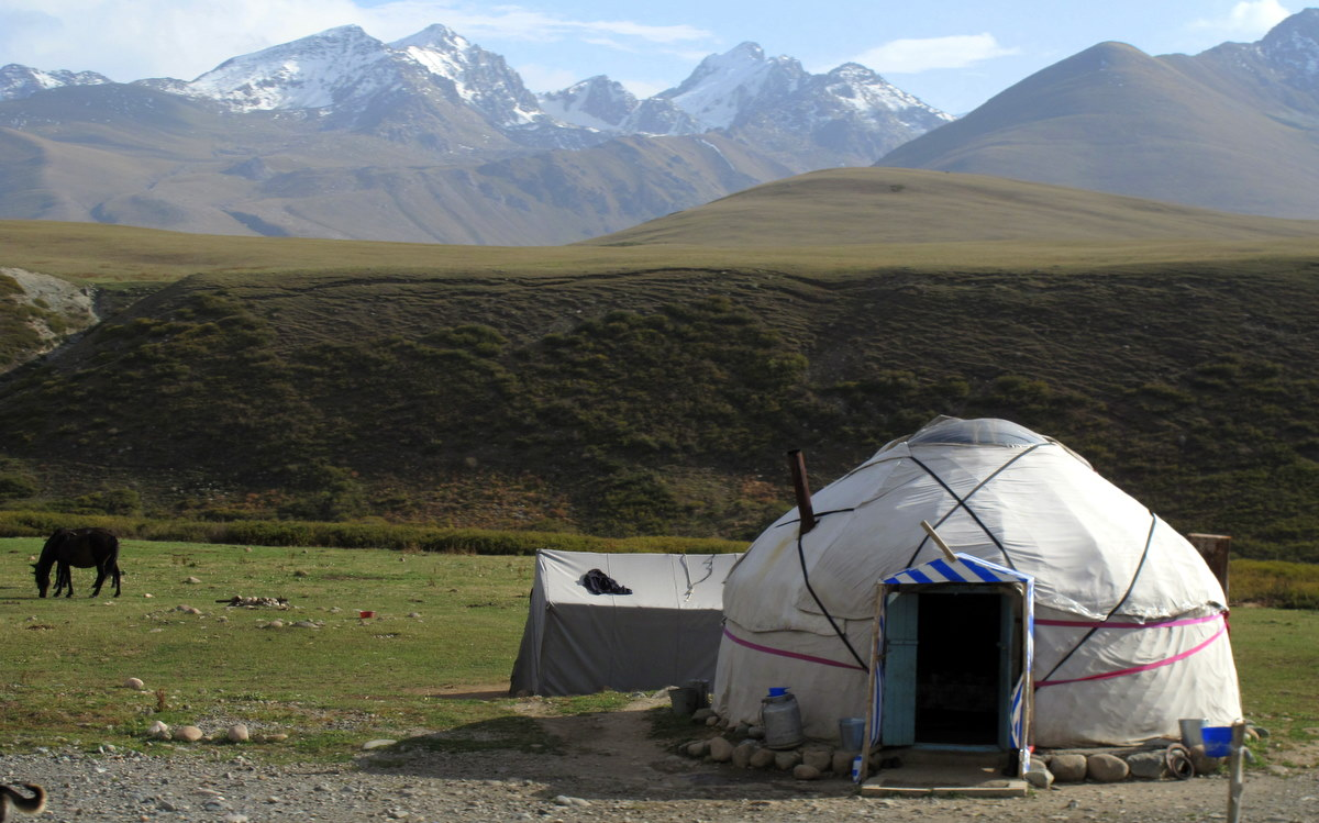 Suusamyr Valley is the correct spelling, and it is an amazing place. I gotta get better pictures of yurts, and the awesome pointy grey beards that live there